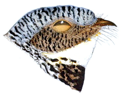 Common Poorwill, Phalaenoptilus nuttallii engraving/etching